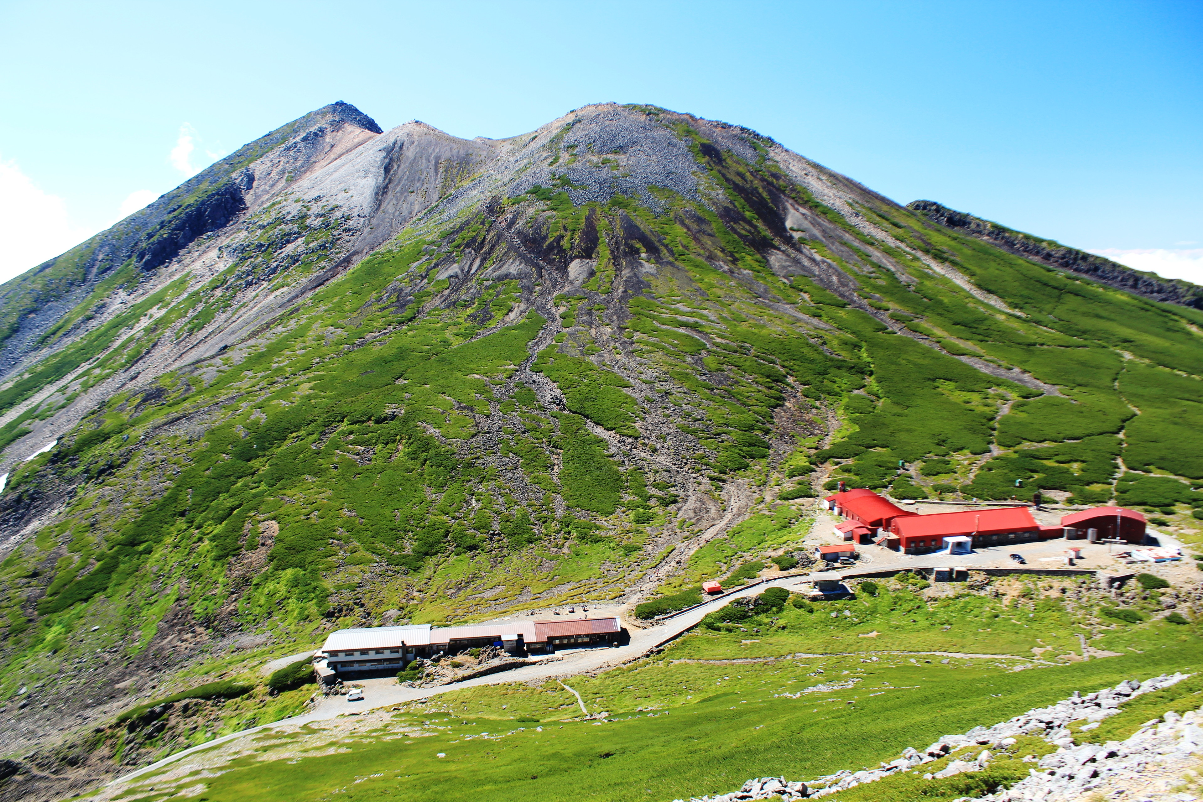 Mount Norikura(Kengamine), Mount Kodama and Mount Asahi from Mount Marishiten, in Nagano pref. and Gifu pref., Japan.